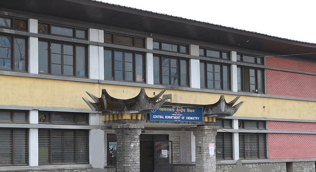 The photo shows the front premise of CDC, TU.